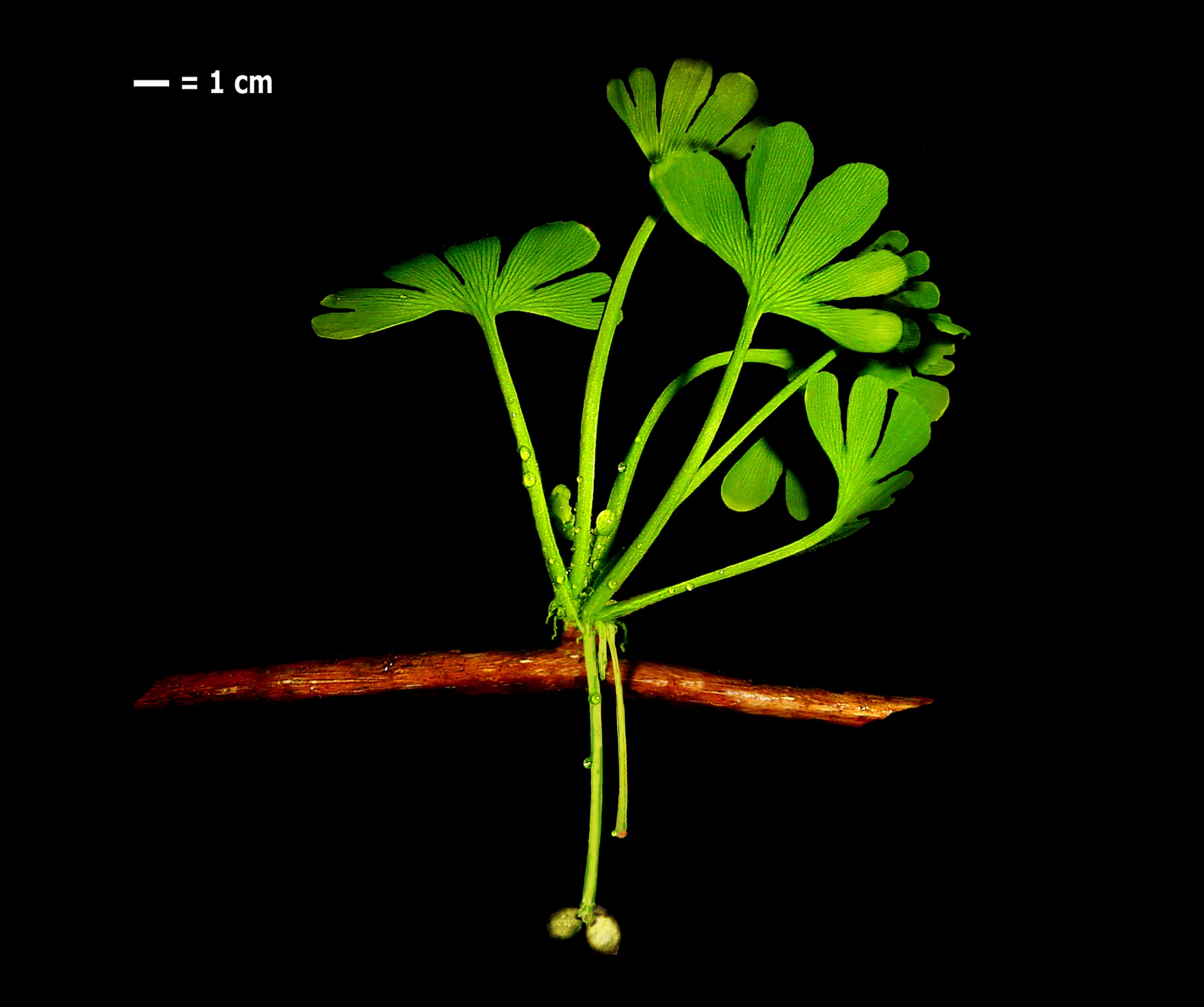 Reconstruction Ginkgo apodes by B M Begovic (2011)